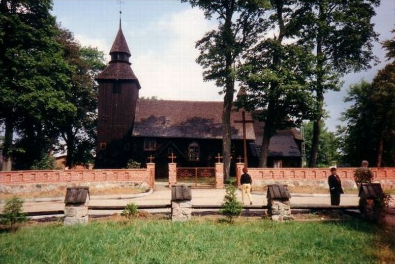 Catholic Church in Brzeźno Szlacheckie (Poland).